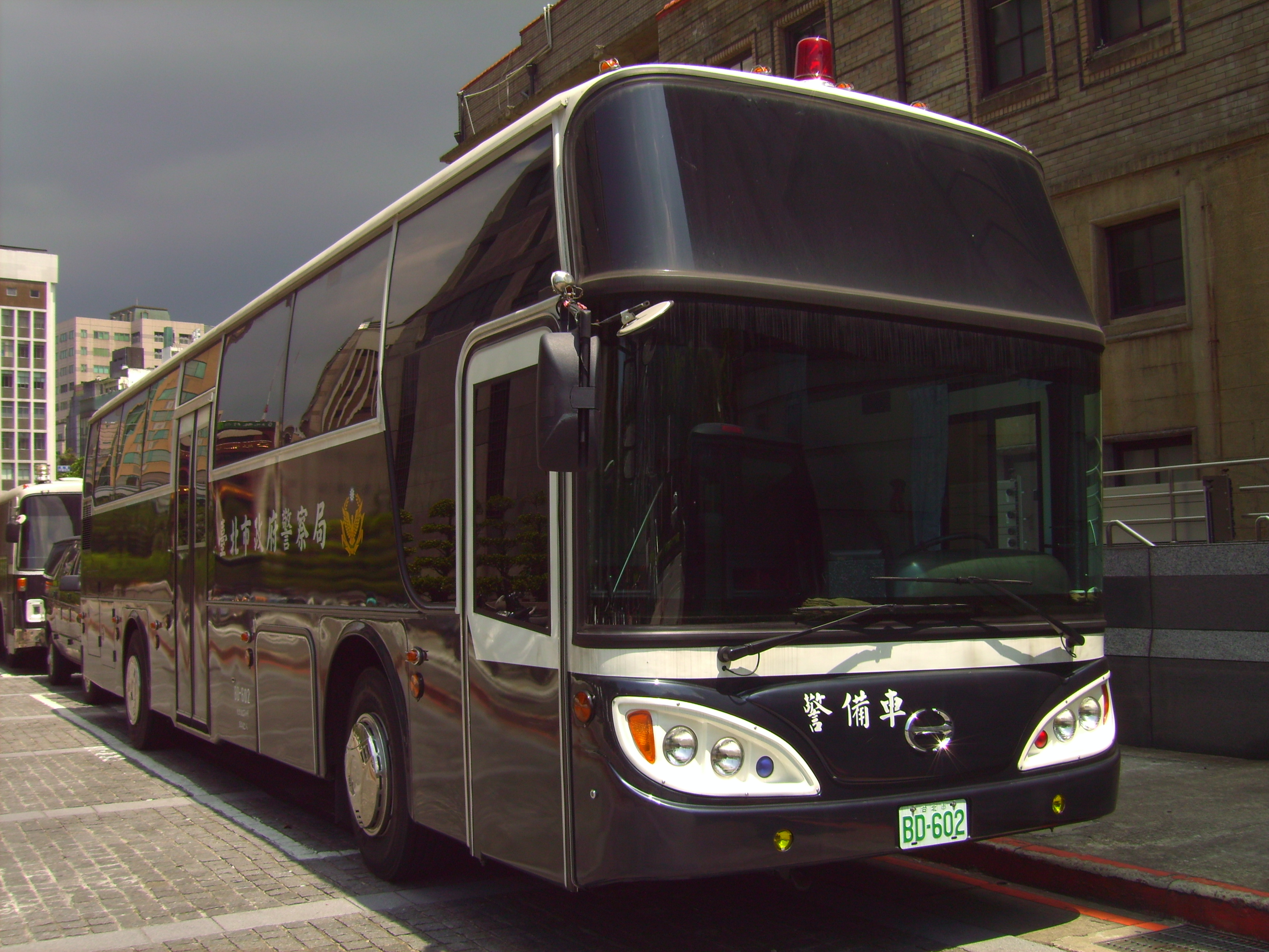 Taipei City Police Department HINO LRM2PSA Squad Car. 中文（台灣）: 臺北市政府警察局日野LRM2PSA警備車BD-602。